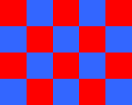 By Majopius - using Word, Powerpoint, and Adobe Photoshop. February 16, 2010. It is an illustration of multiplication - a rectangle 4 by 5.